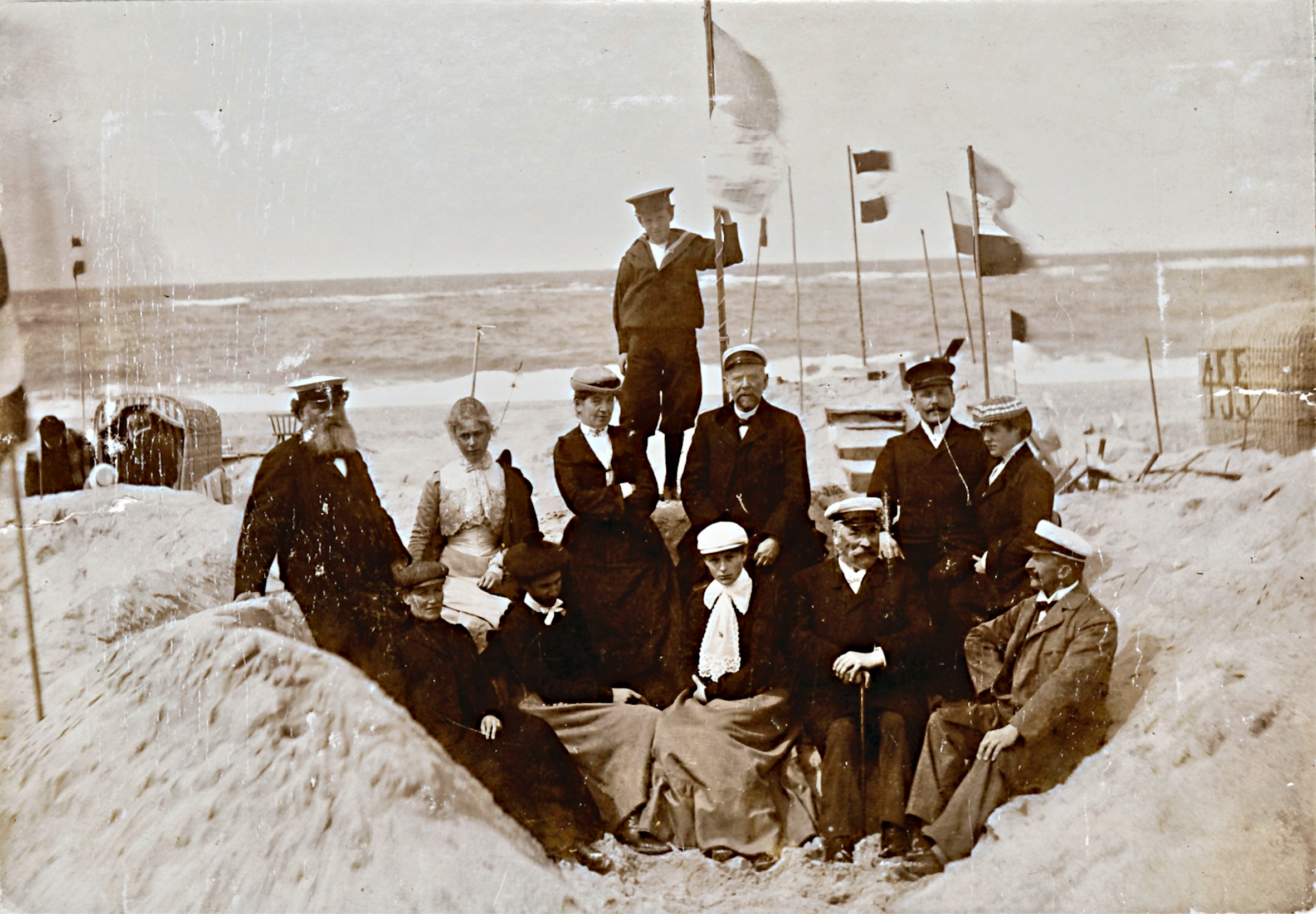 On the left: Christoph Friedrich Fanck (born December 4, 1846, † June 16, 1906) with his wife Karolina Ida (born January 10, 1858, † May 16, 1957), born Paraquin. Next to the couple the three daughters Marie (born August 24, 1882), Helene (born November 21, 1886, † December 4, 1979) and Ernestine Elisabeth (born March 23, 1888, † April 15, 1940) are placed. Her eldest son Ernst (born January 18, 1884, † July 31, 1884) died a few months after his birth. Her youngest child Arnold Heinrich (born March 6, 1889, † September 28, 1974) stands on a pile of sand in the background (center) and holds on to an improvised flagpole. The German national flag is on the left side of the picture in the wall of sand piled up around the family. Arnold Fanck wore, as was customary for children at the time, a sailor suit, a fashion that goes back to the favorite pastime of the German emperor Wilhelm II, creating a German navy and changing his uniform several times a day. Another German fashion of that time was the mustaches of the two gentlemen on the far right, in a patriotic imitation of the imperial male ornament: they were characterized by the saying "It has been achieved" due to their swirled up ends.